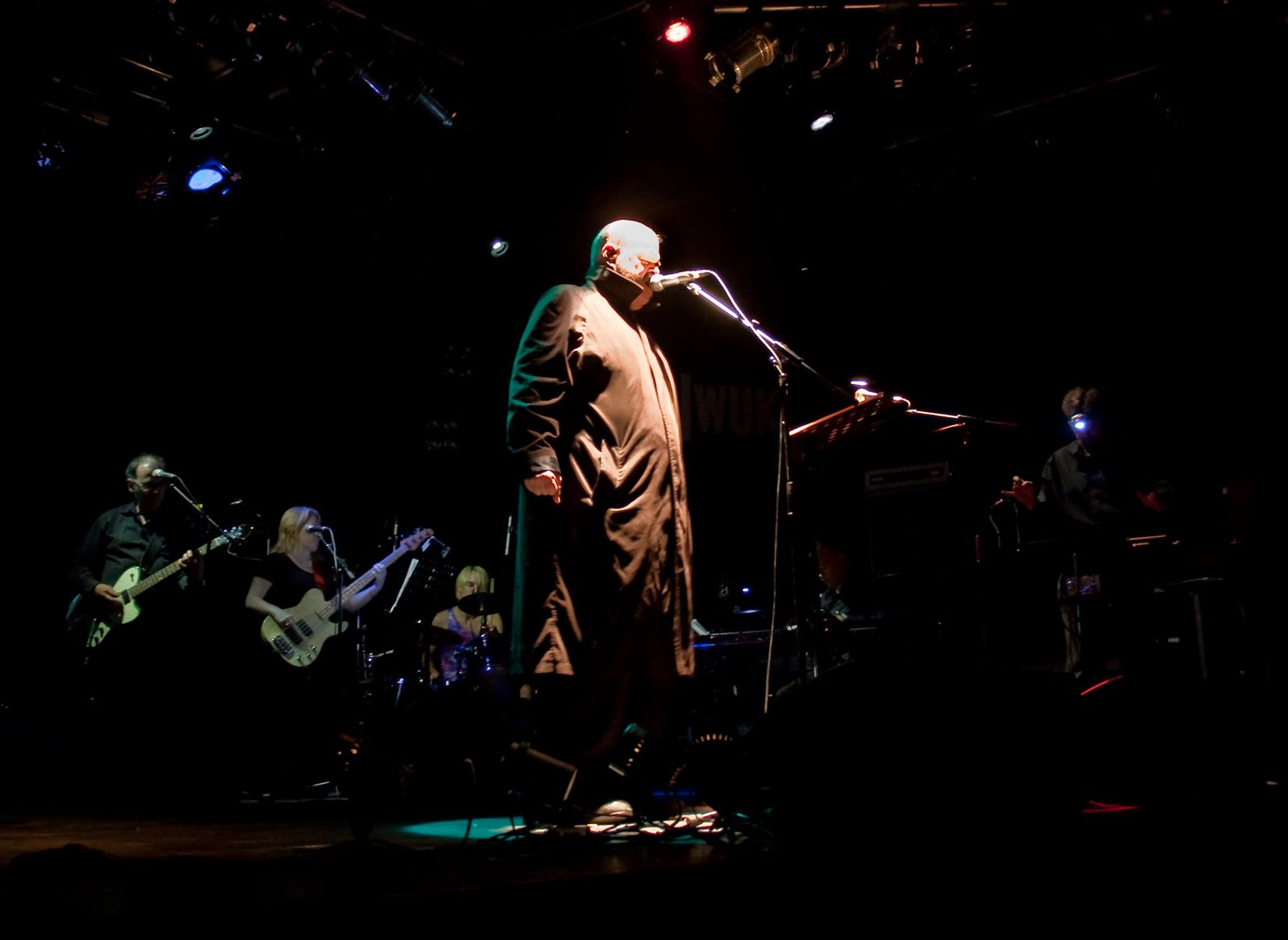 Pere Ubu Performing "Long Live Pere Ubu!" at WUK Vienna